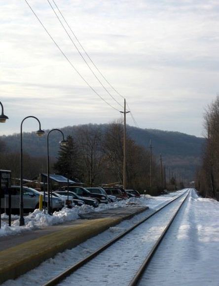 Whitehouse Station, showing Cushetunk Mountain in the background.